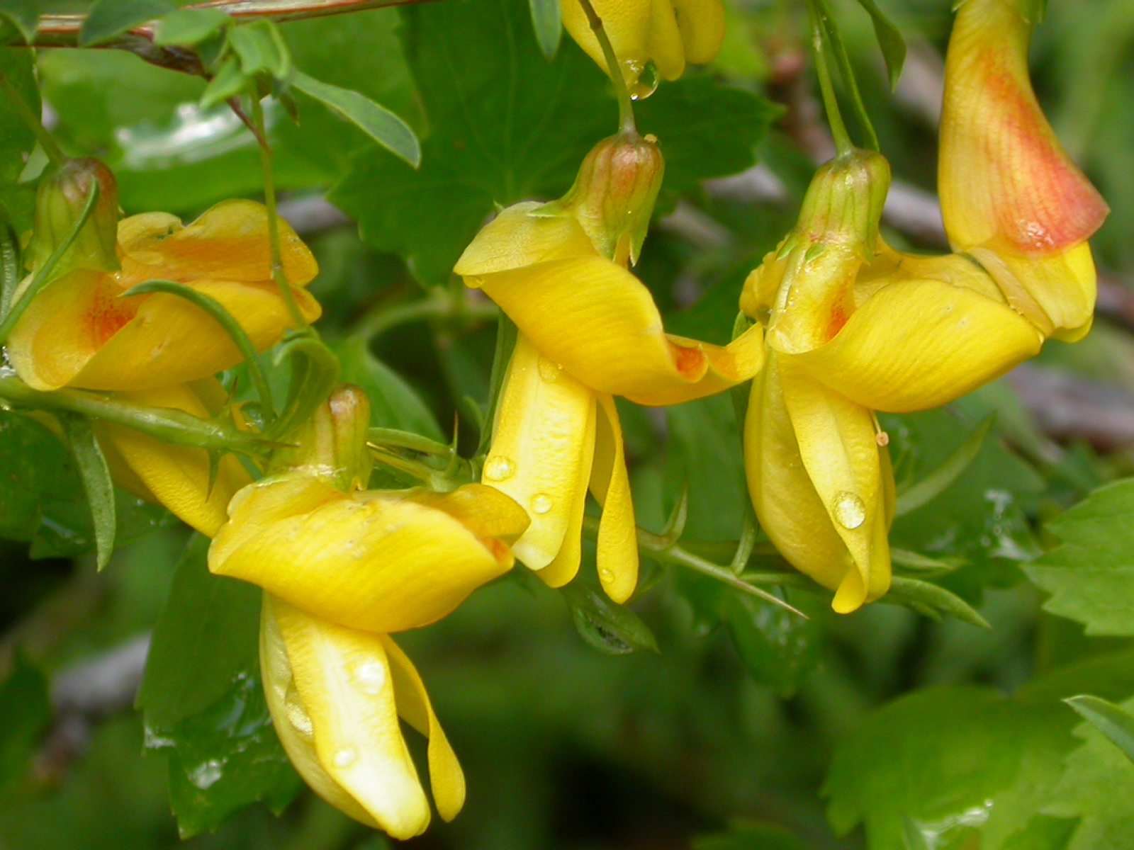 The stipules are spiny and the infloresences comprises usually 1 axillary flower.